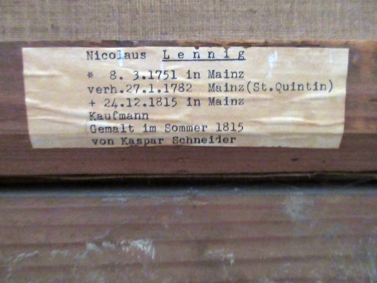 Revers portrait Nicolaus Lennig painted by Kaspar Schneider summer 1815